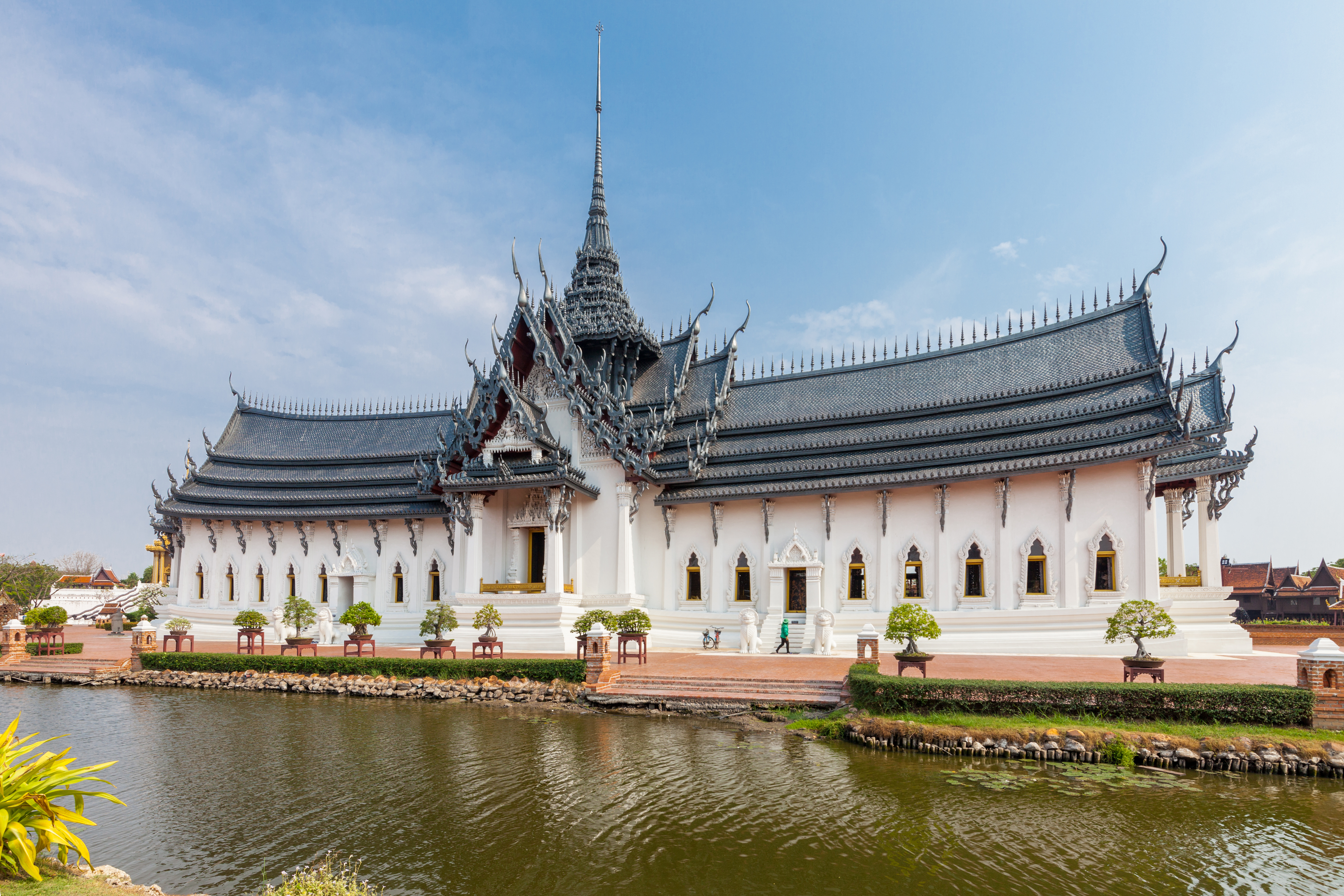 Sanphet Prasat Throne Hall, Ayuthayan kings' palace, replica in Mueang Boran (Ancient City), Samut Prakan Province.